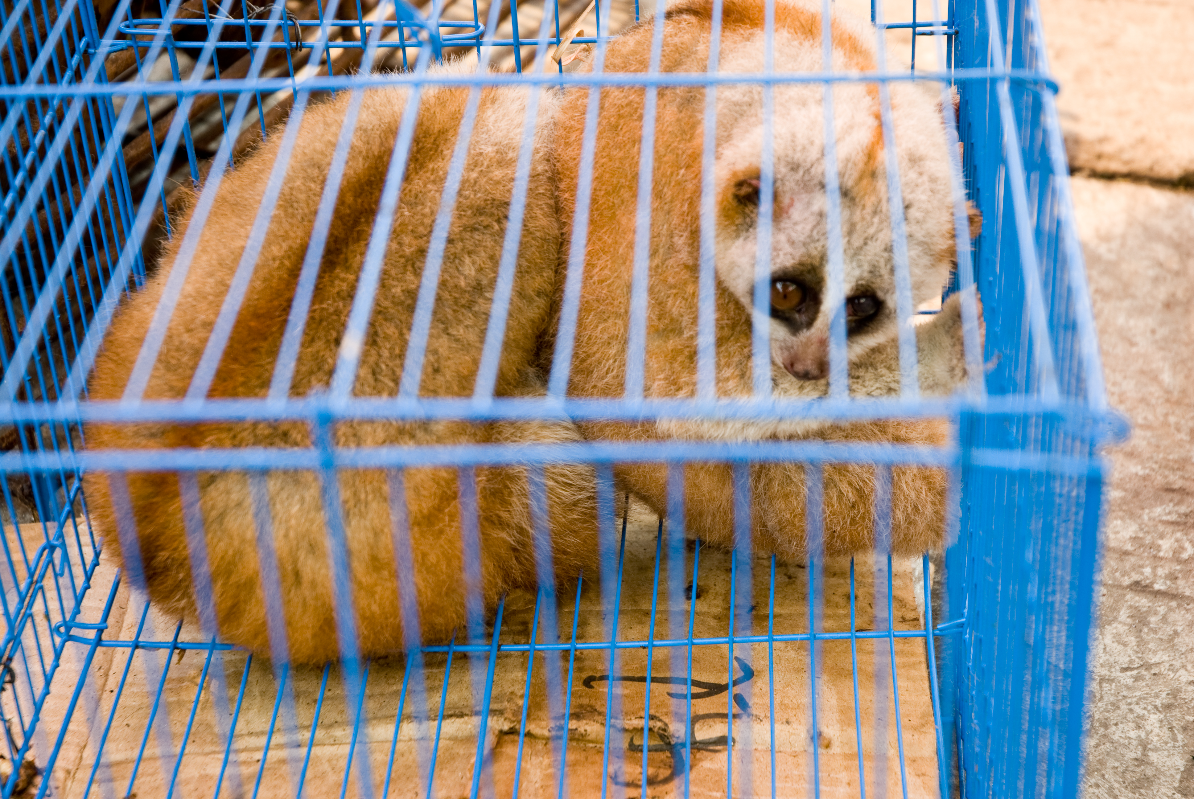 Illicit Endangered Wildlife Trade in Möng La, Shan, Myanmar Slow lorises (Nycticebus bengalensis)